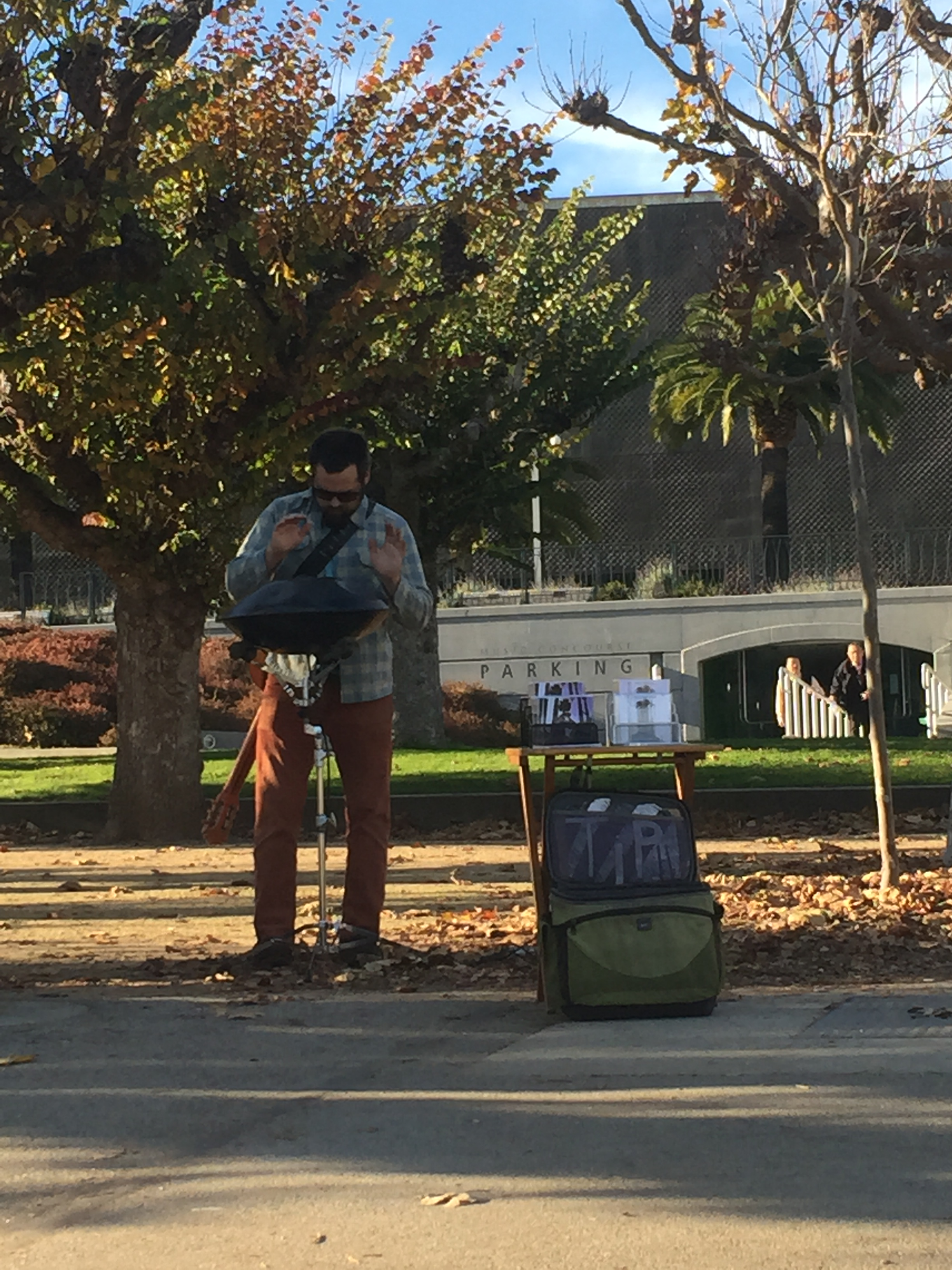 Music Entertainer in Golden Gate Park